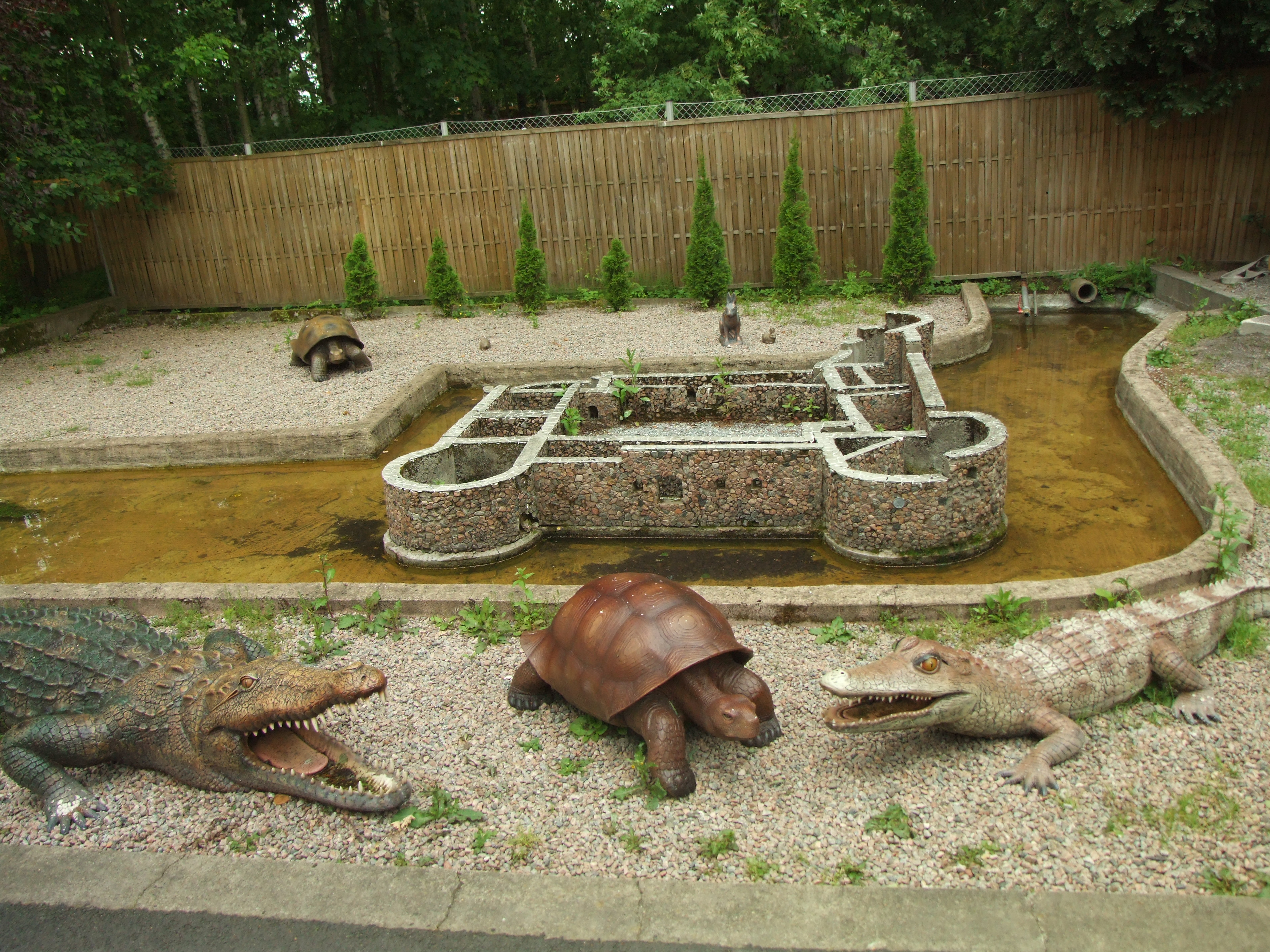 One of the many bizarre attractions of Halmstad Adventureland